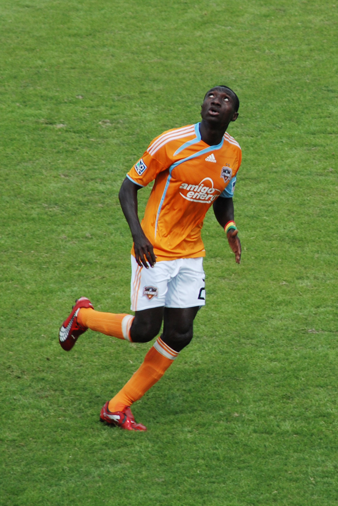 Dominic Oduro in the match Houston vs. C.D. Chivas USA.